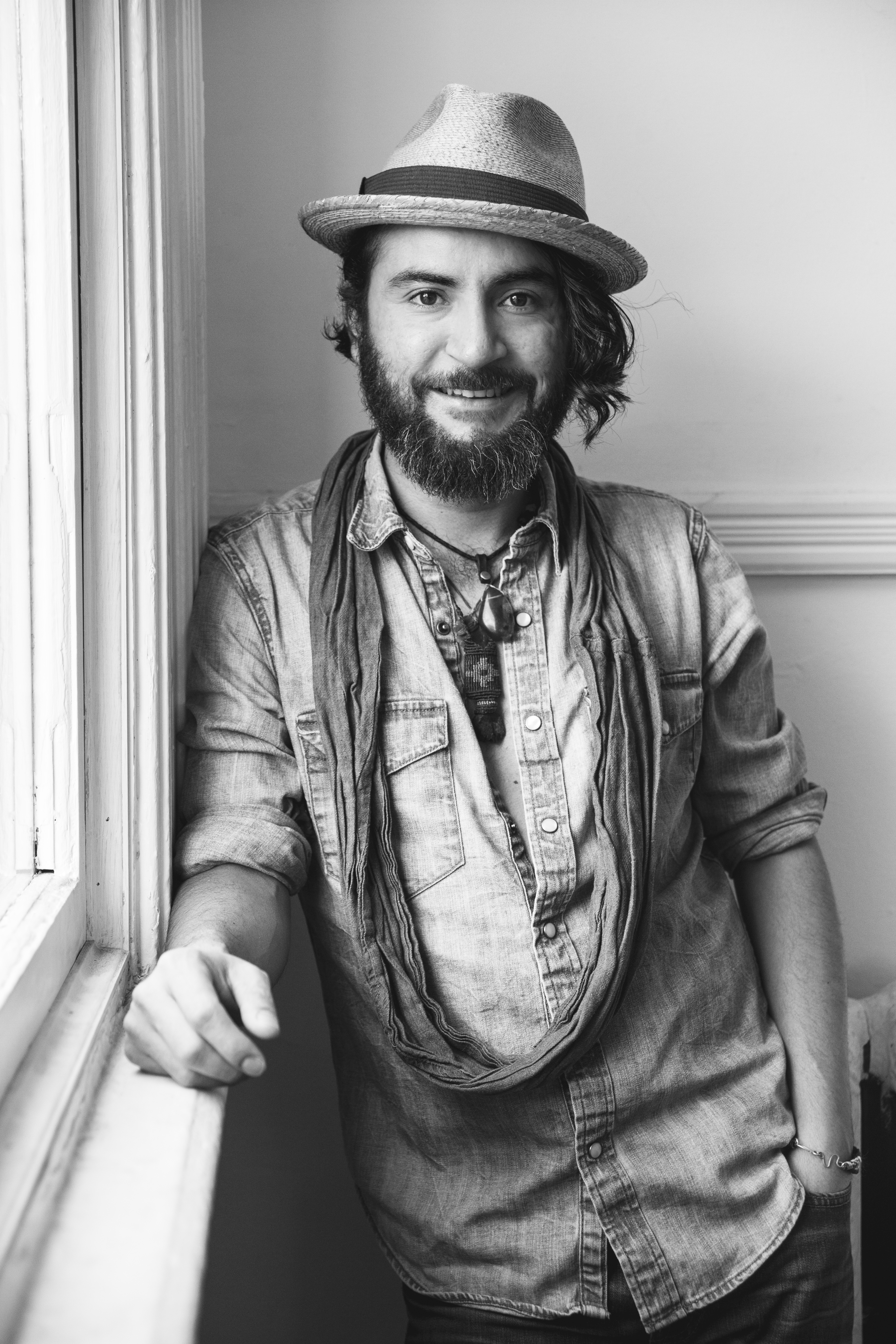 Quique Escamilla at The Great Hall - Toronto.